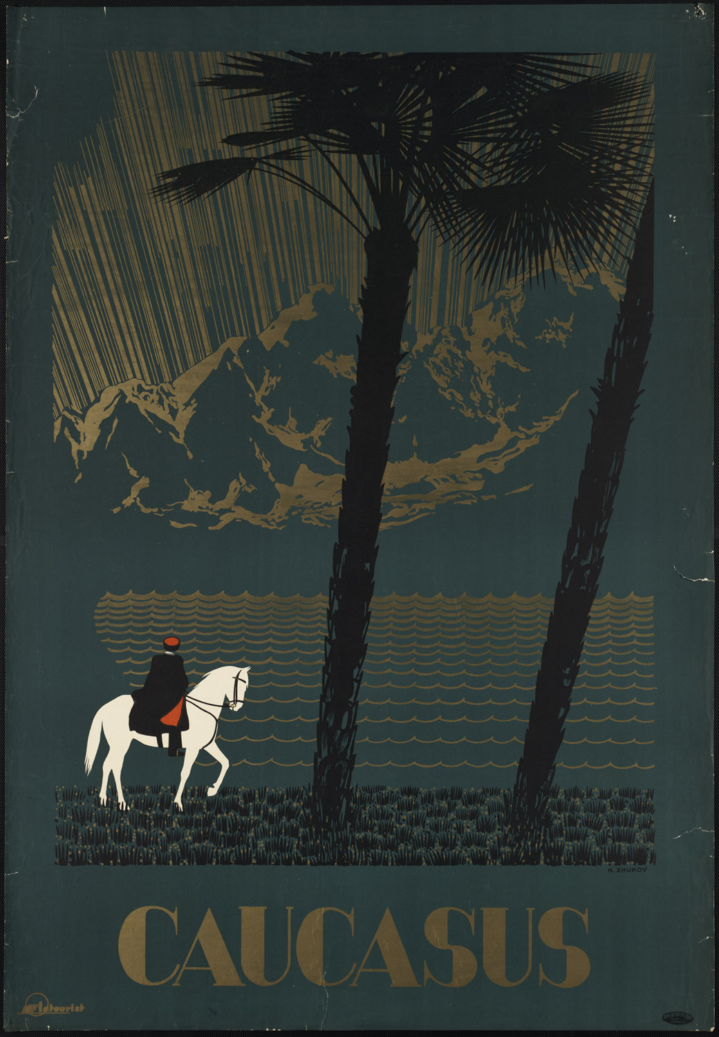 Accession No.: 08_05_000261 Title: Caucasus Place of publication: USSR (Russia) Publication information: Bhewtop_h3aat (Intourist [publisher]) Genre: Travel posters; Prints Medium: 1 print (poster) : color Notes: Title from item.; Intourist BPL Collection: Travel Posters BPL Department: Print Department